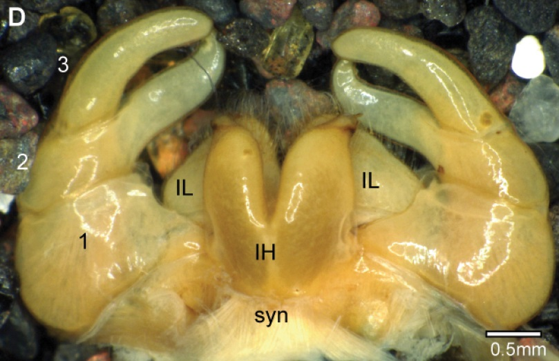 Sphaeromimus vatovavy male; posterior telopods, anterior view. (Sphaerotheriida, Arthrosphaeridae). Abbreviations: IH = inner horns; IL = inner lobes; syn = syncoxite. Numbers refer to appendage segment number (telopoditomere).